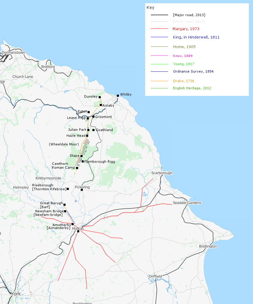 Map of sections of Wade's Causeway reported as extant by various authorities 1736 - 2013 Other information It makes use of map data from . Their FAQ states clearly that "The ODbL does not place any restrictions on how a Produced Work (such as a map as a JPG image) is used. It only requires a notice such as "Contains information from OpenStreetMap, which is made available here under the Open Database Licence (ODbL)". I hereby make that notice.